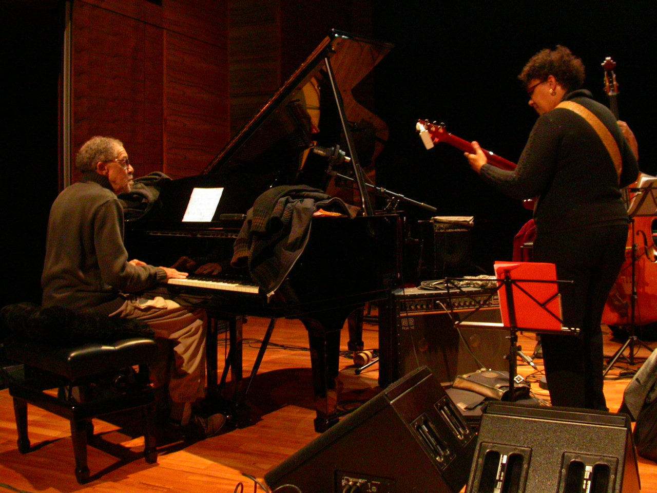 Bobby Few